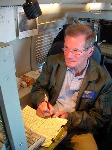 Senator Bill Nelson of Florida source